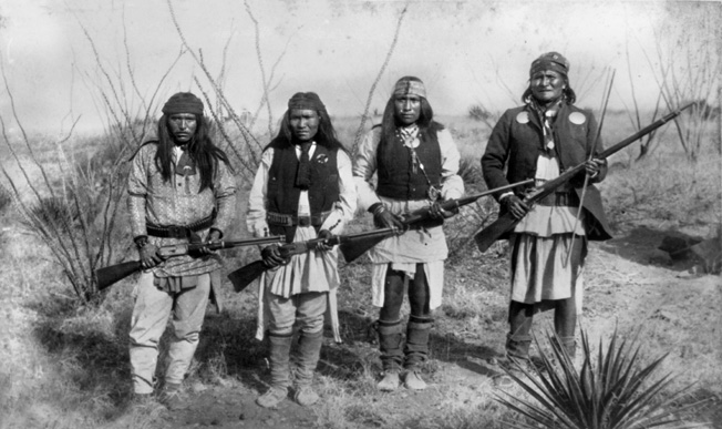 Apache warrior Geronimo (right) and his warriors from left to right: Yanozha (Geronimos´s brother-in-law), Chappo (Geronimo´s son of 2nd wife) and Fun (Yanozha´s half brother) in 1886